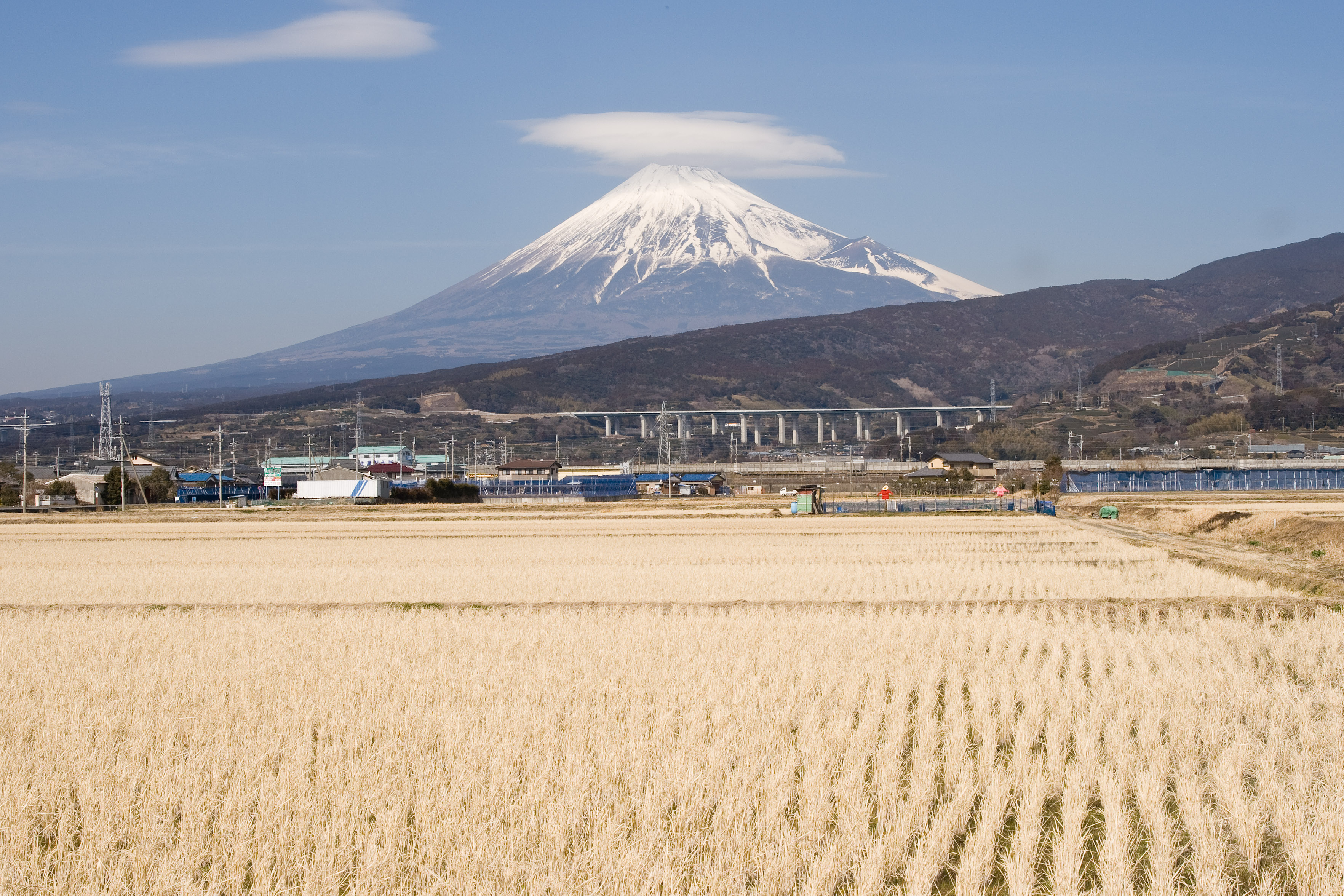 Mt.Fuji from Fuji City, Shizuoka Pref., Japan.